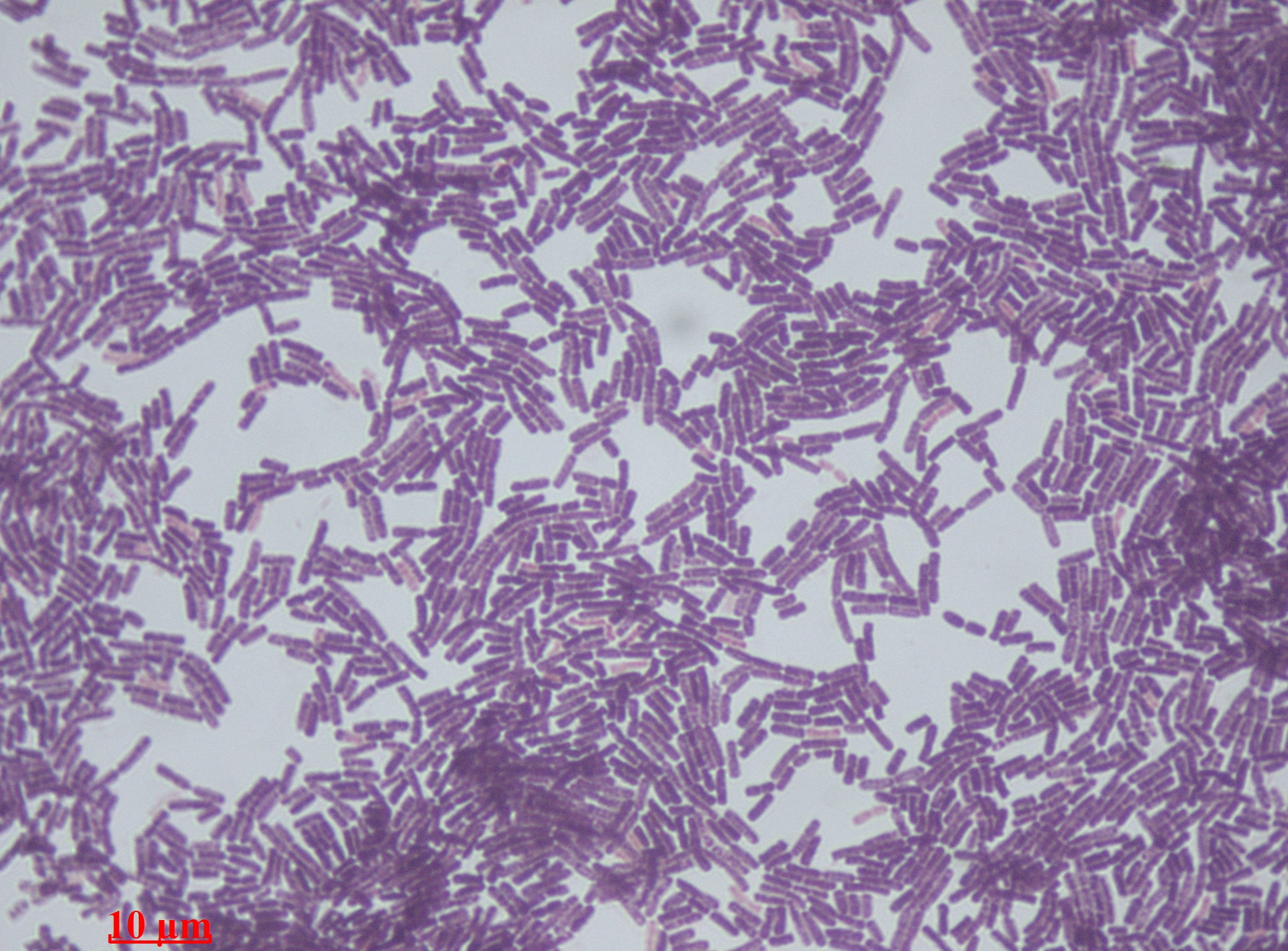 It is a Gram stain of Bacillus species